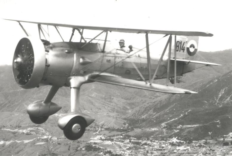 The Hawk II F11C is a single-seat fighter aircraft of U.S. origin entered the military service in 1932. This aircraft can carry two 0.30 mm machine guns and four hangers 1100 pounds for bombs and rockets. It was decommissioned in 1946 and is currently a training aircraft.